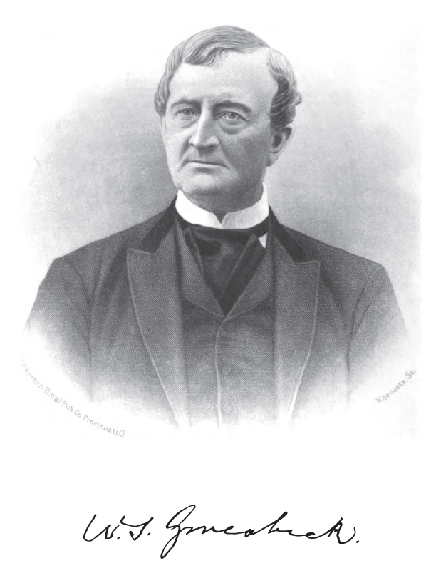 an Ohio politician named William S. Groesbeck